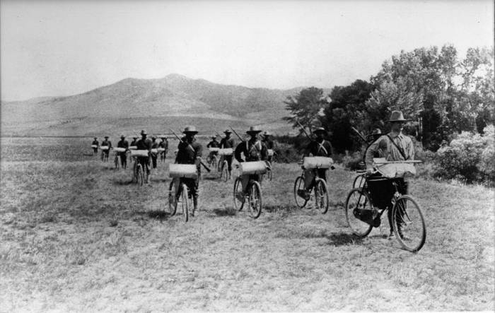 Bicycle Corp at Fort Missoula in 1897.